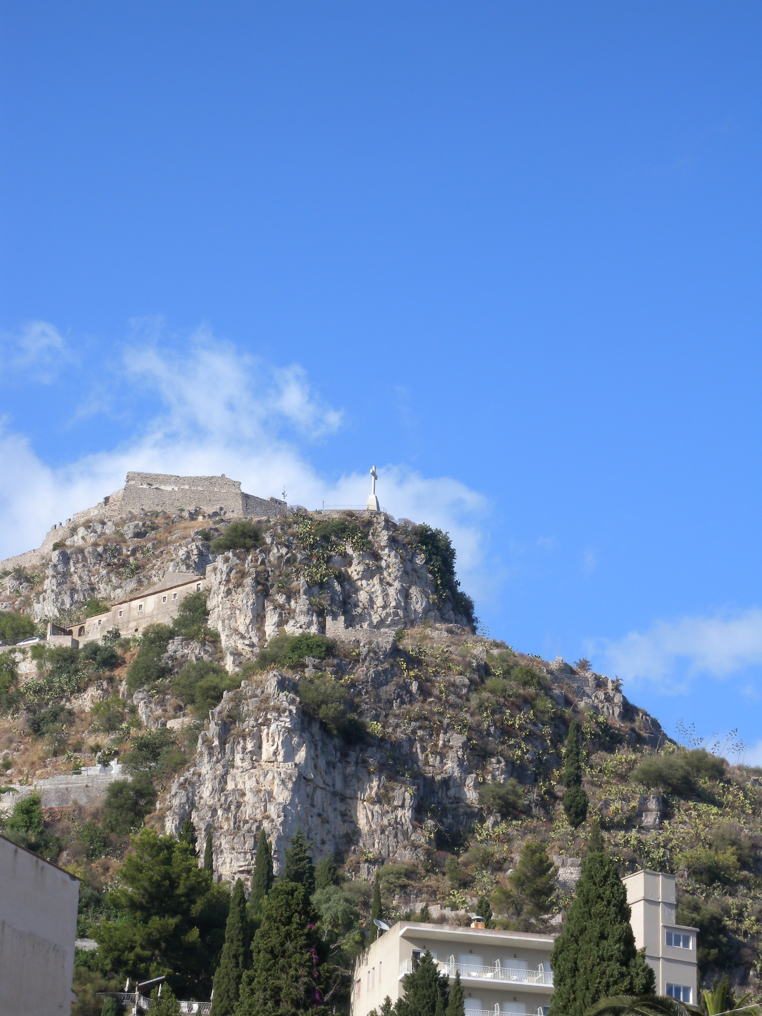 Taormina, Sicily